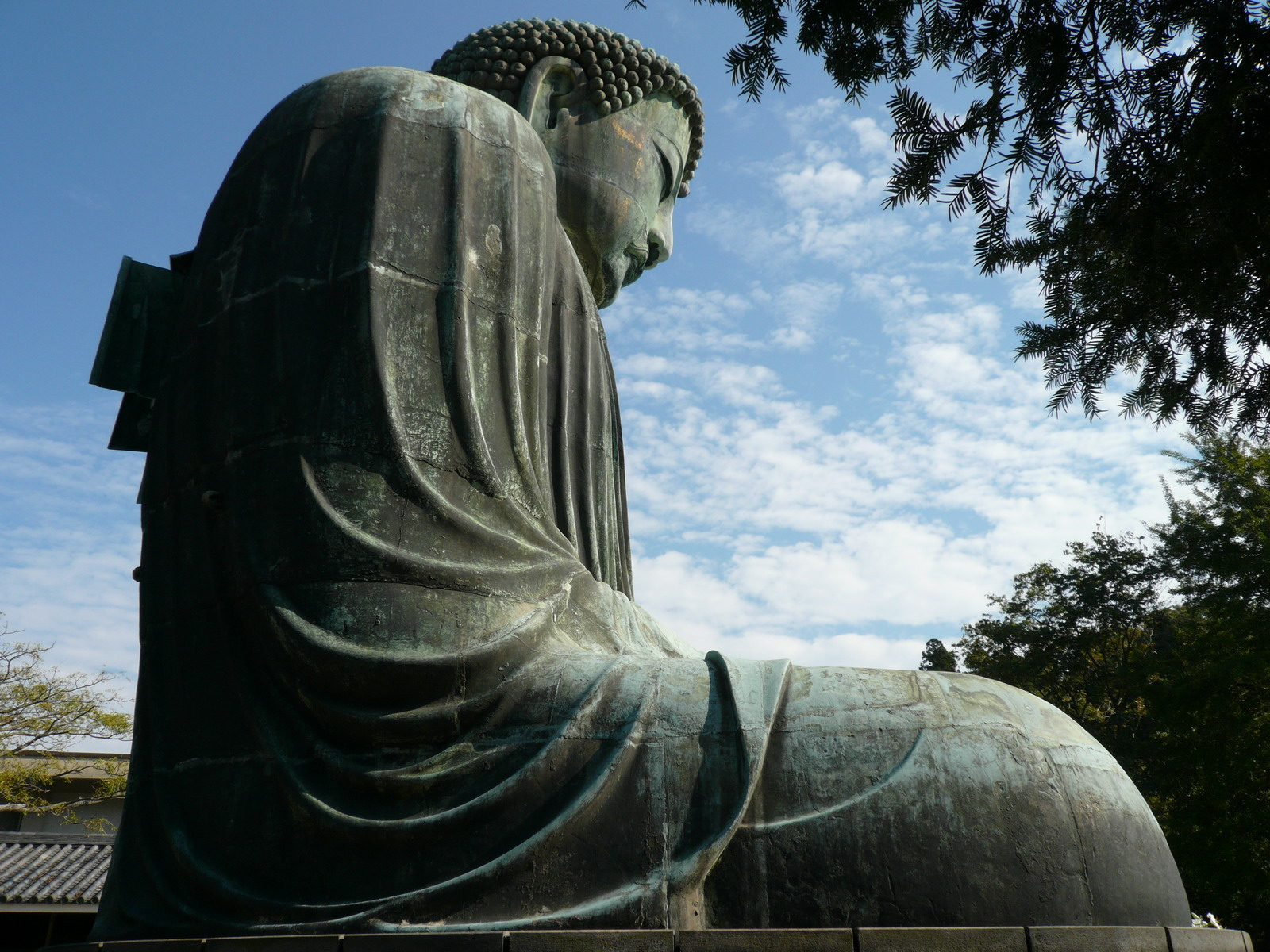 Daibutsu (Great Buddha) at the Kamakura, Japan